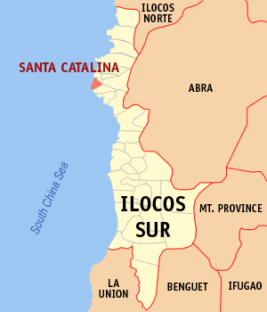 Map of Ilocos Sur showing the location of Santa Catalina